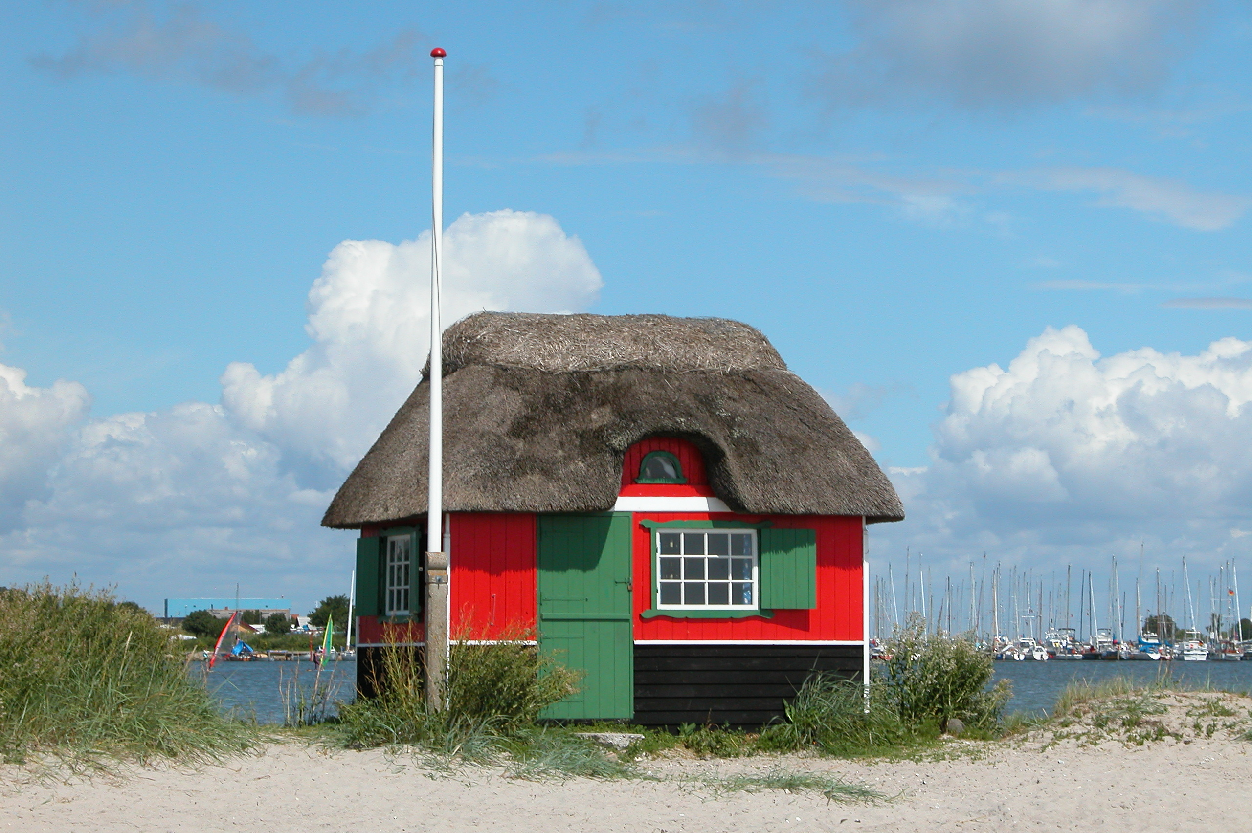 Colourful beach huts on the beach at Ærø Hale near Marstal on Ærø island, Denmark. Ærø Hale is 1.5 km long and consists of sand banks, beach embankments and tongues of land that change their shape continuously caused by the influence of the sea.